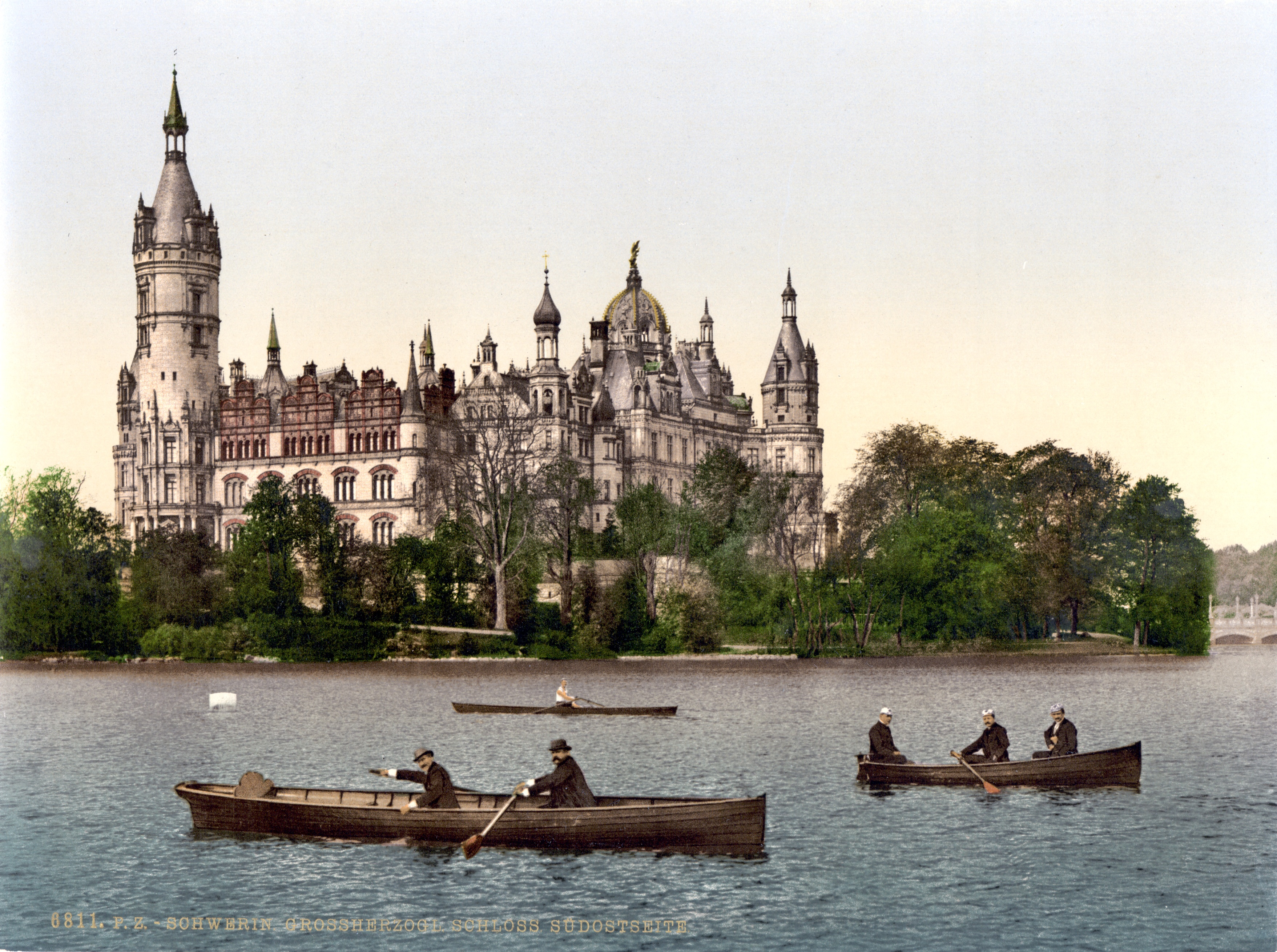 Schwerin Castle, south-eastern aspect